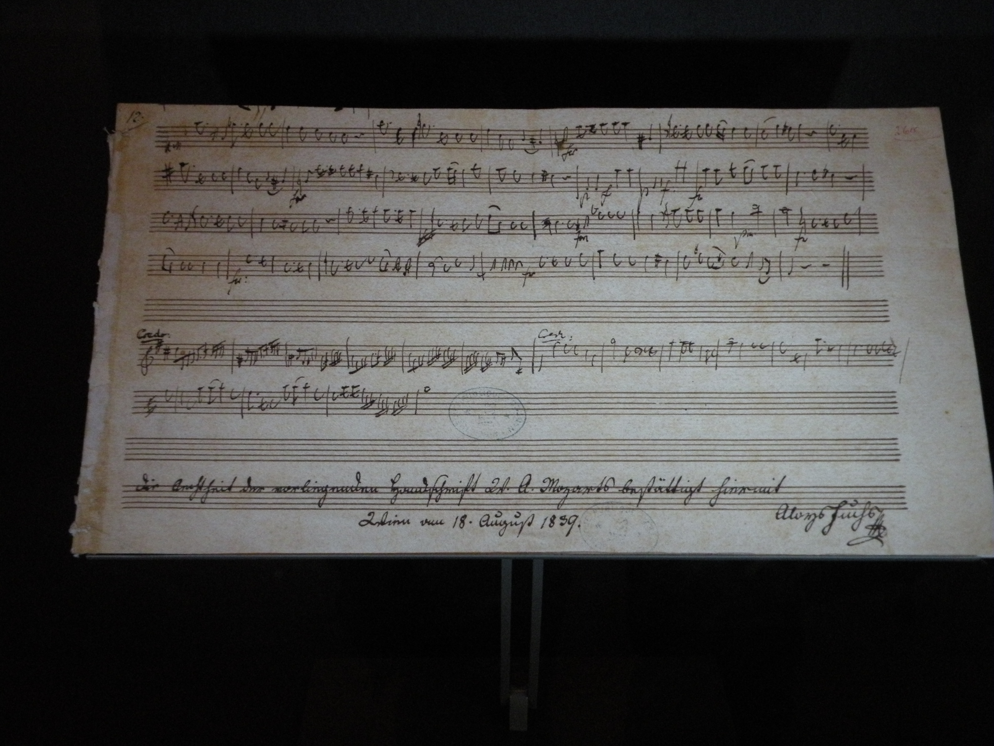 Unpublished sheet music of Wolfgang Amadeus Mozart, discovered in Nantes' public library.